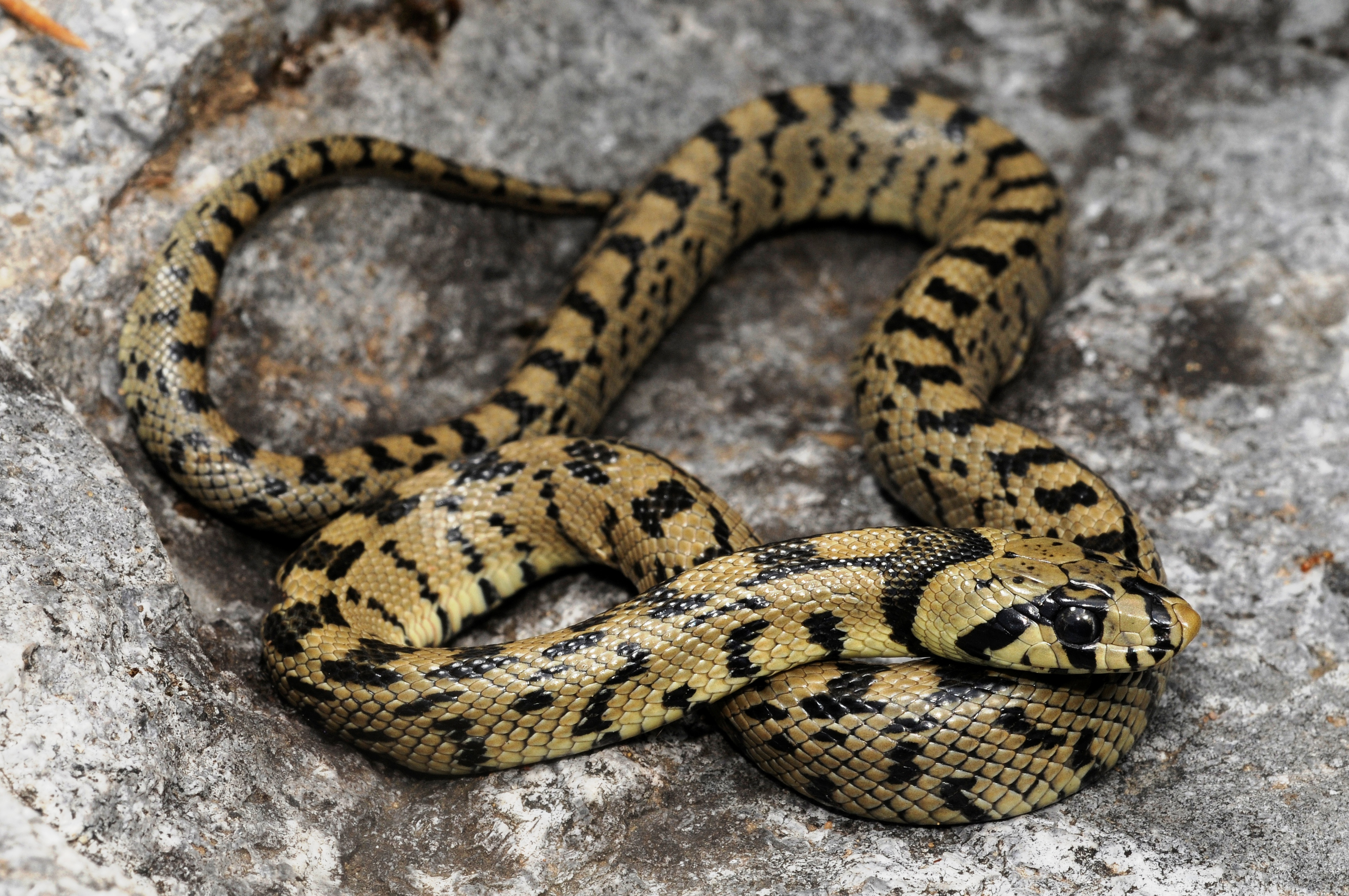 Rhinechis scalaris